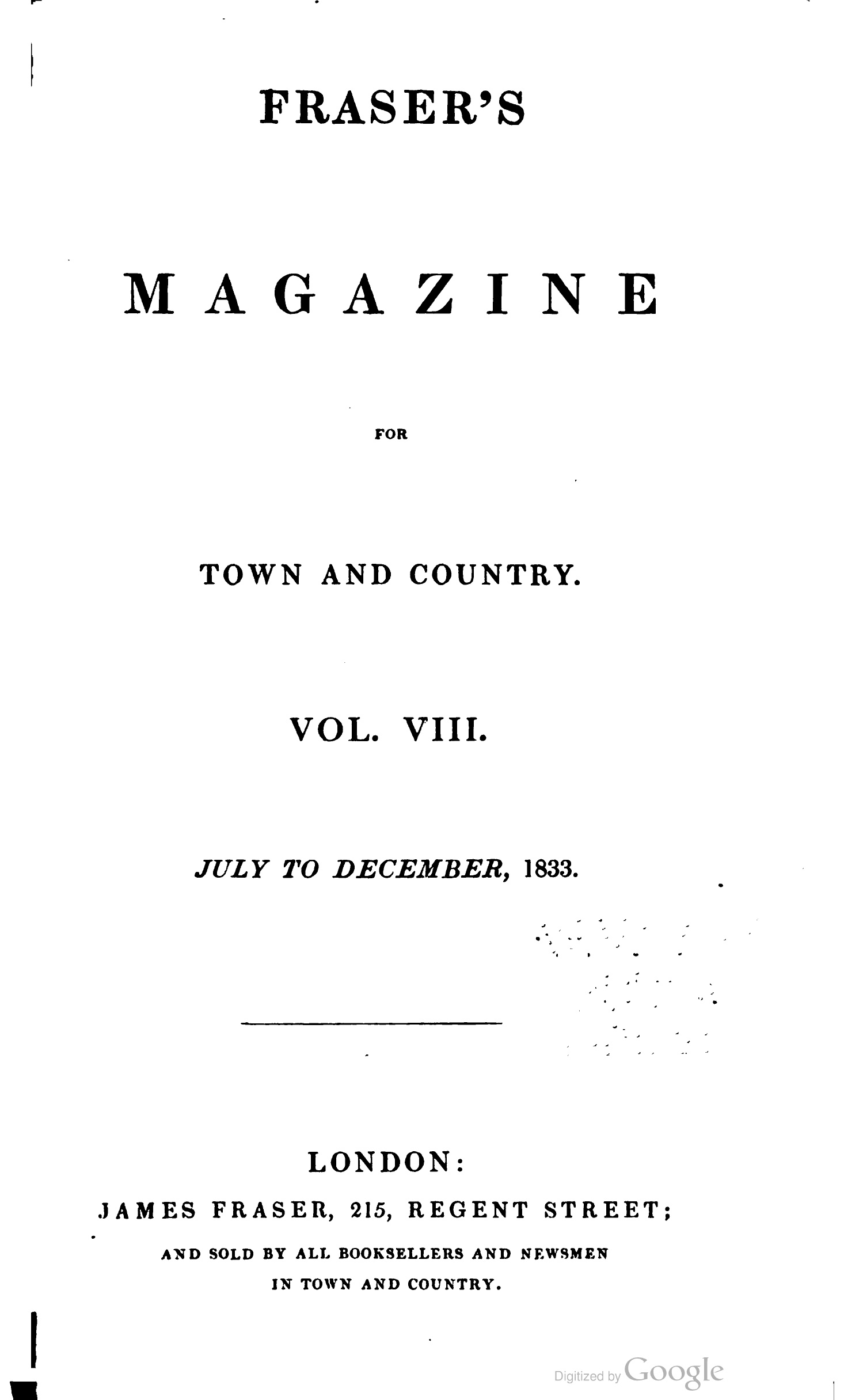 Title-page of vol.8 of Fraser's Magazine (1833).